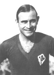 Uruguayan footballer Pedro Petrone Schiavone with A.C. Fiorentina in the early 1930s.